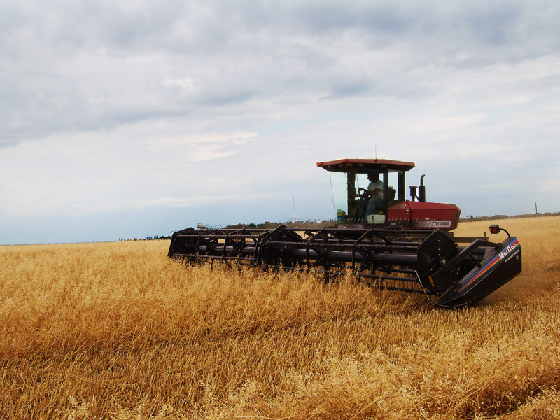 A swather, also called a windrower – Windrower tractor with a MacDon draper header for windrowing